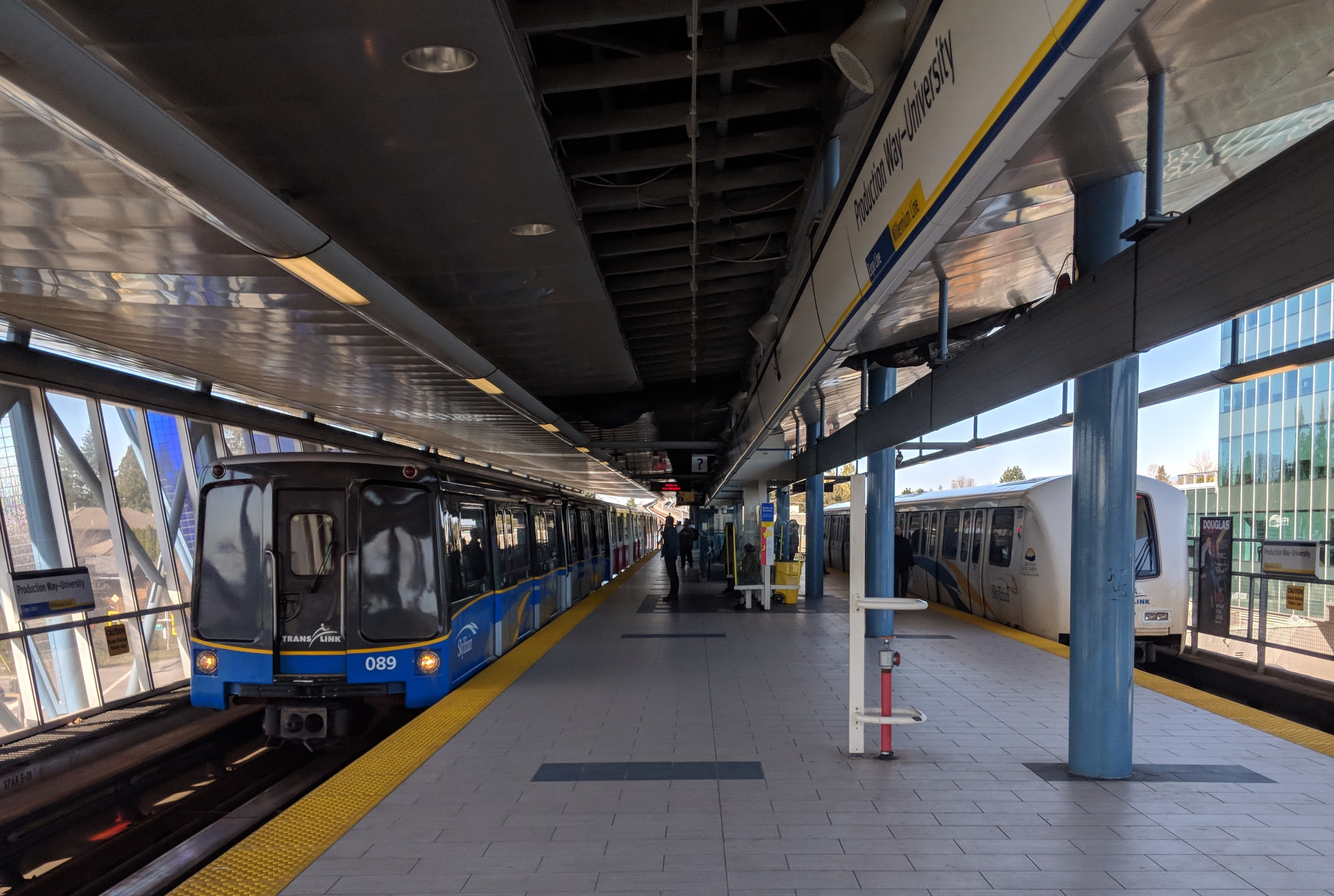 Platform level at Production Way–University station. The train on the left is an inbound Expo Line train to Waterfront station in Downtown Vancouver; the train on the right is an inbound Millennium Line train to VCC–Clark station in East Vancouver. Ceiling panels have been removed in preparation of the installation of the real-time arrival information display system.